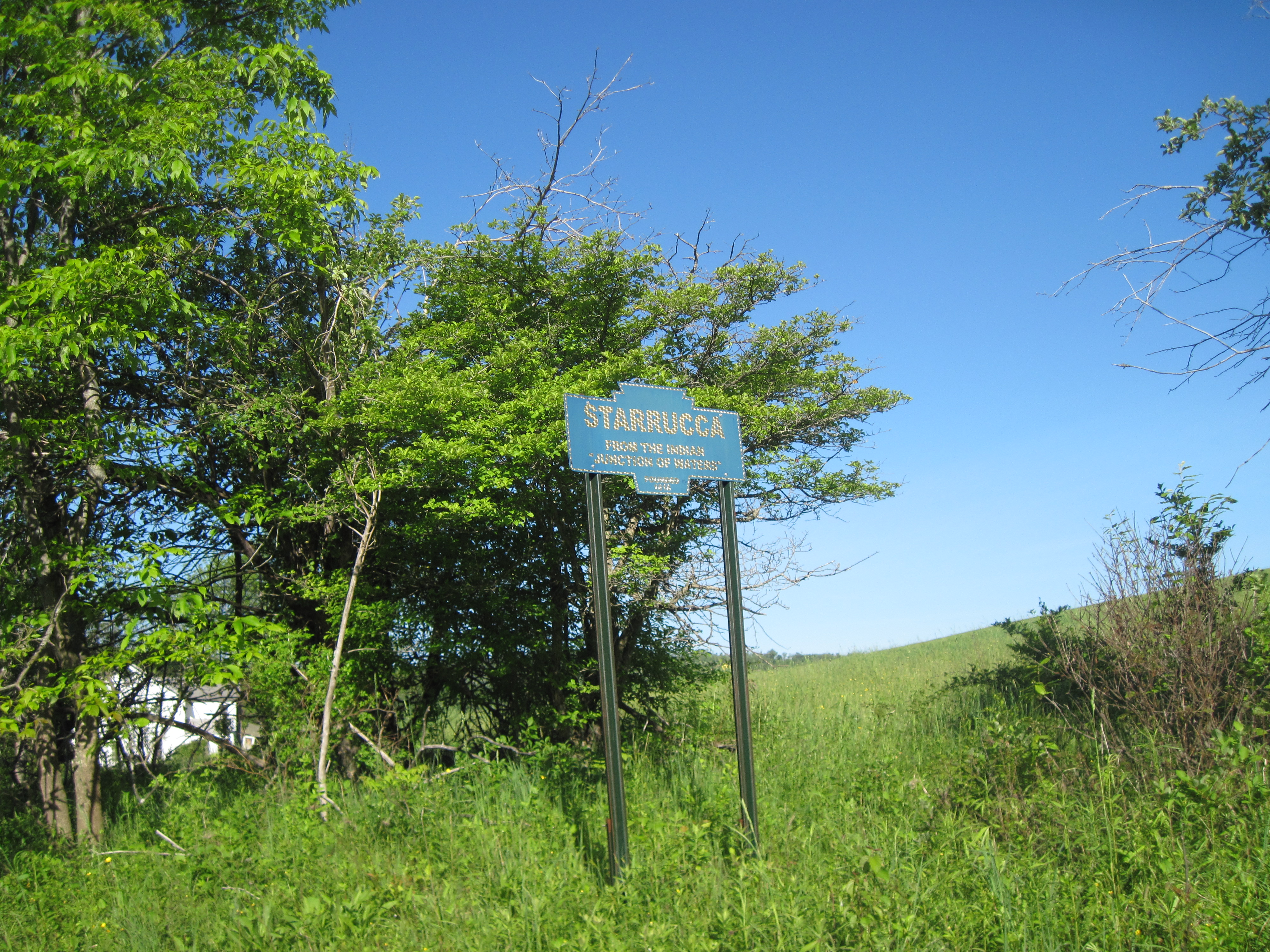 Picture of one of the two reproduction Keystone Markers for the Borough of Starrucca, Pennsylvania. This is the one near the borough's eastern border, along Shadigee Creek Road.